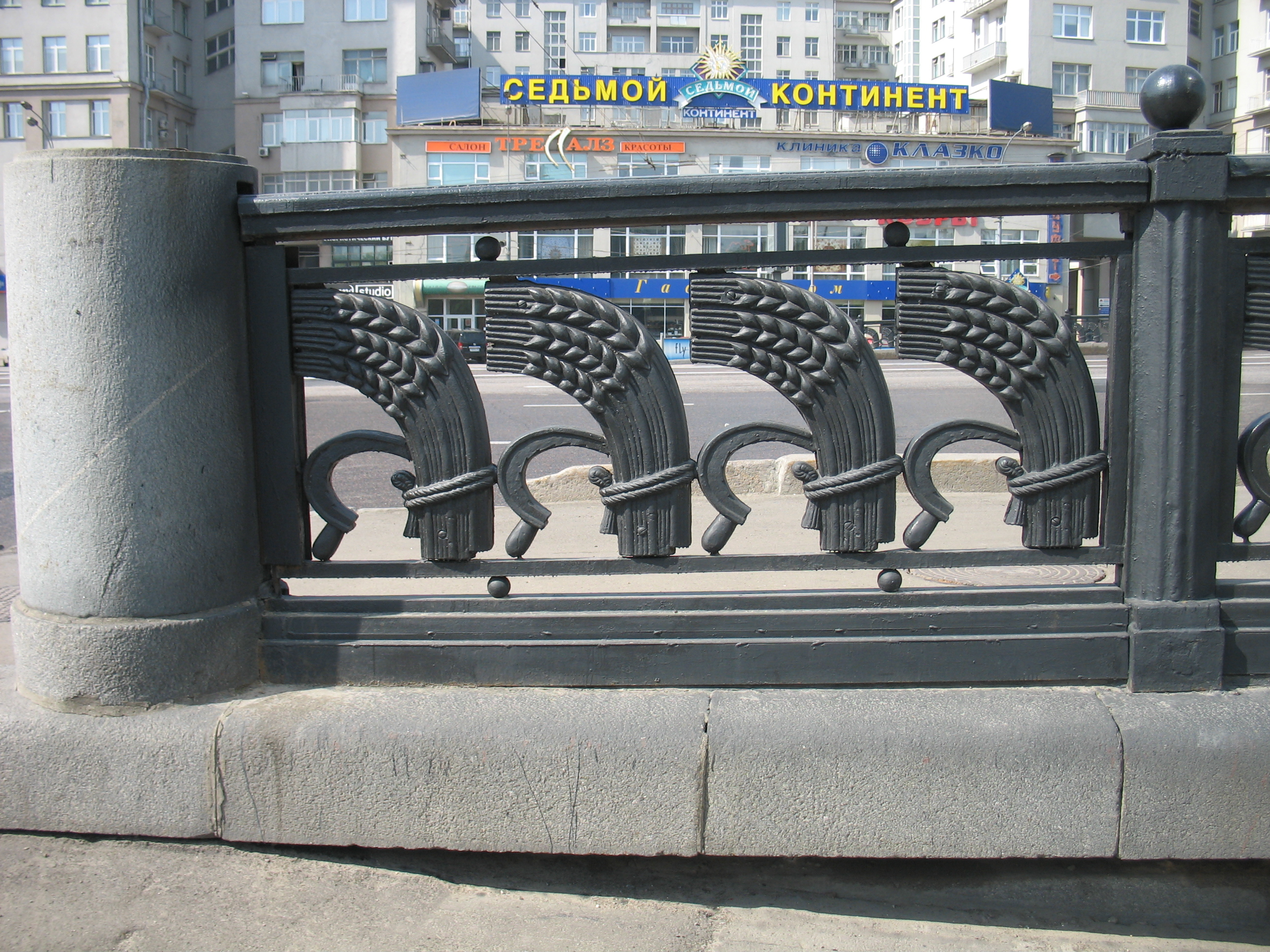 Bridge railing, partial view of Bolshoy Kamenny Bridge, Moskva River